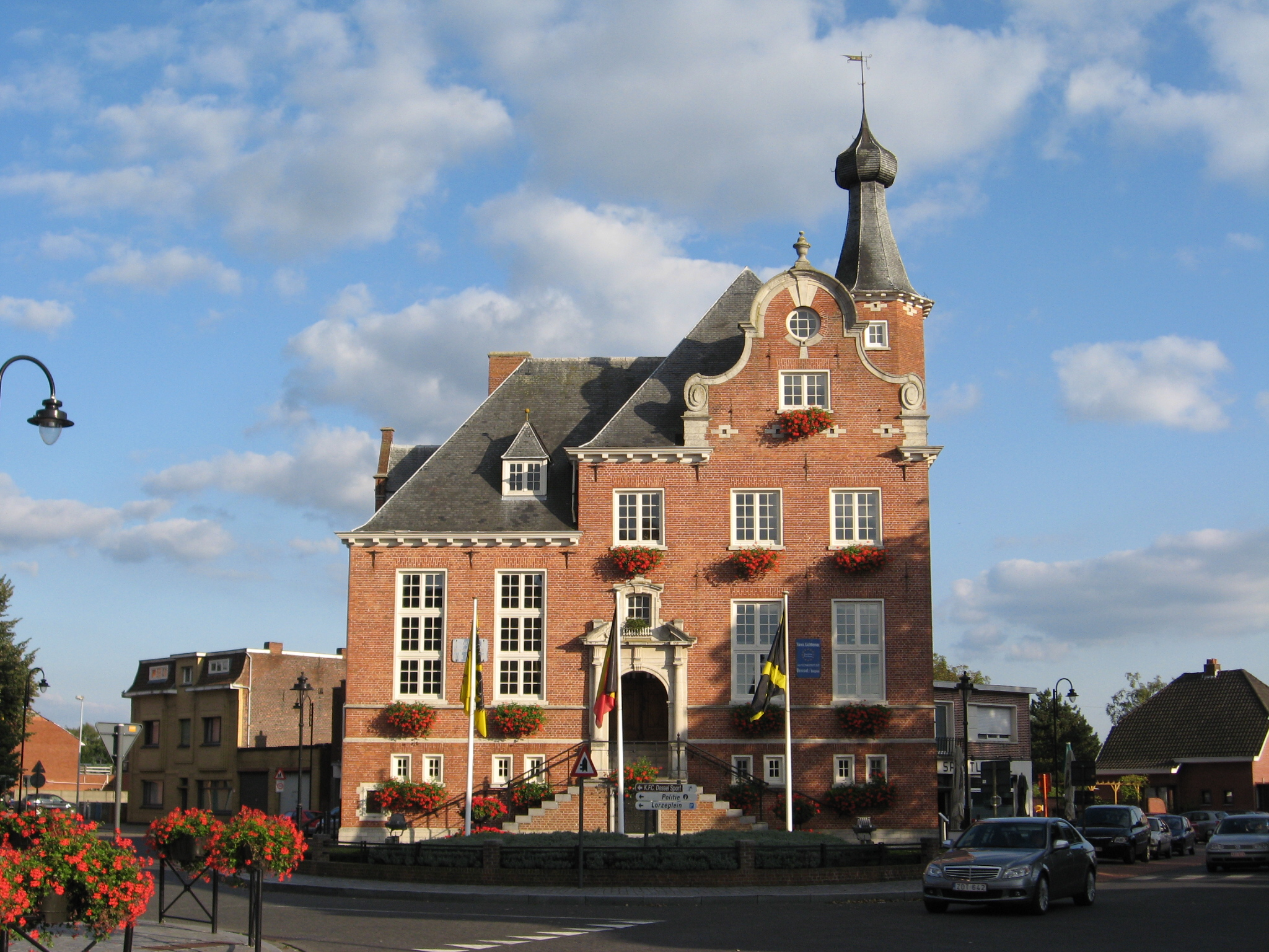 Former town hall of Dessel, Antwerp, Belgium